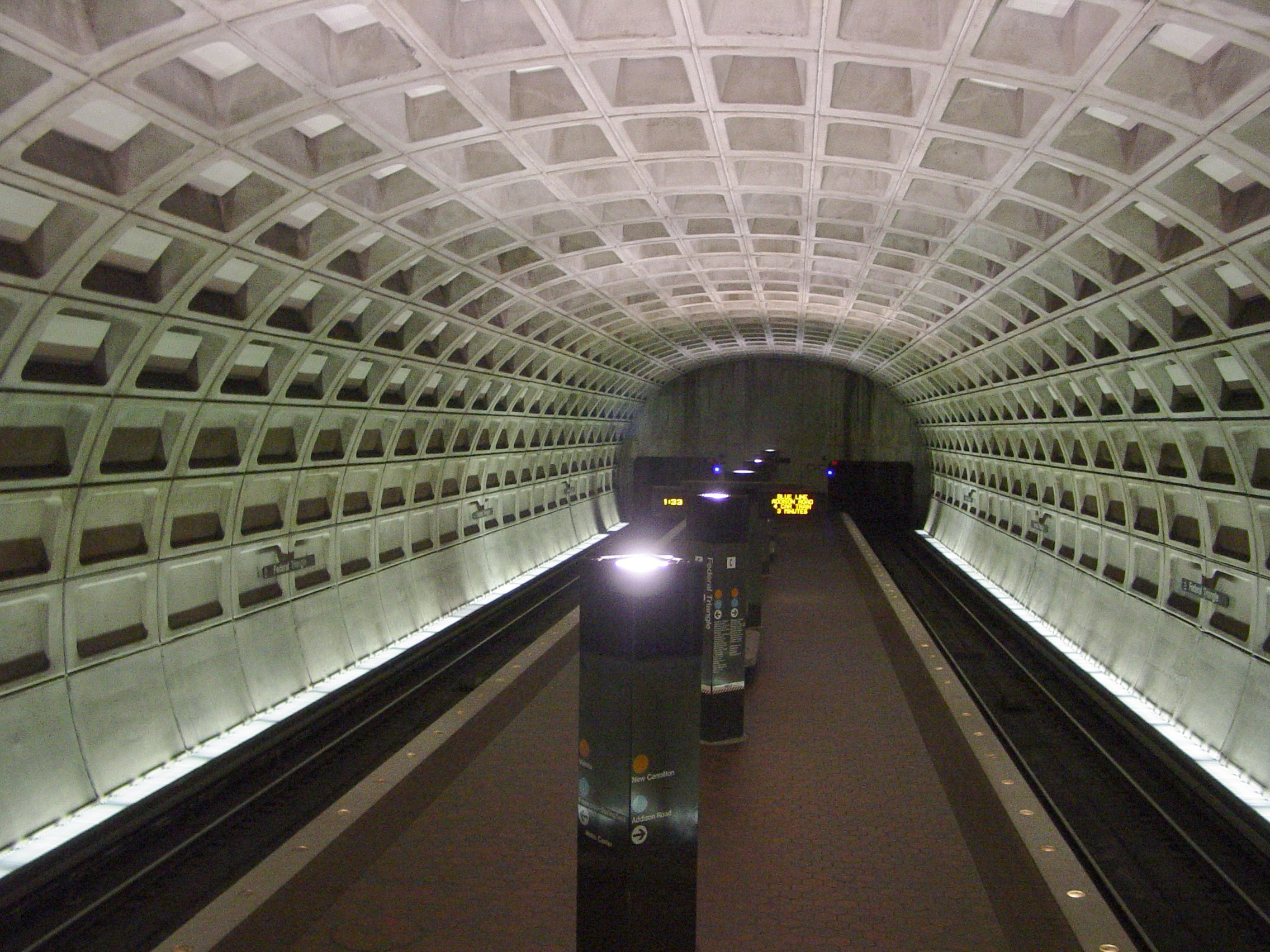 Federal Triangle Station